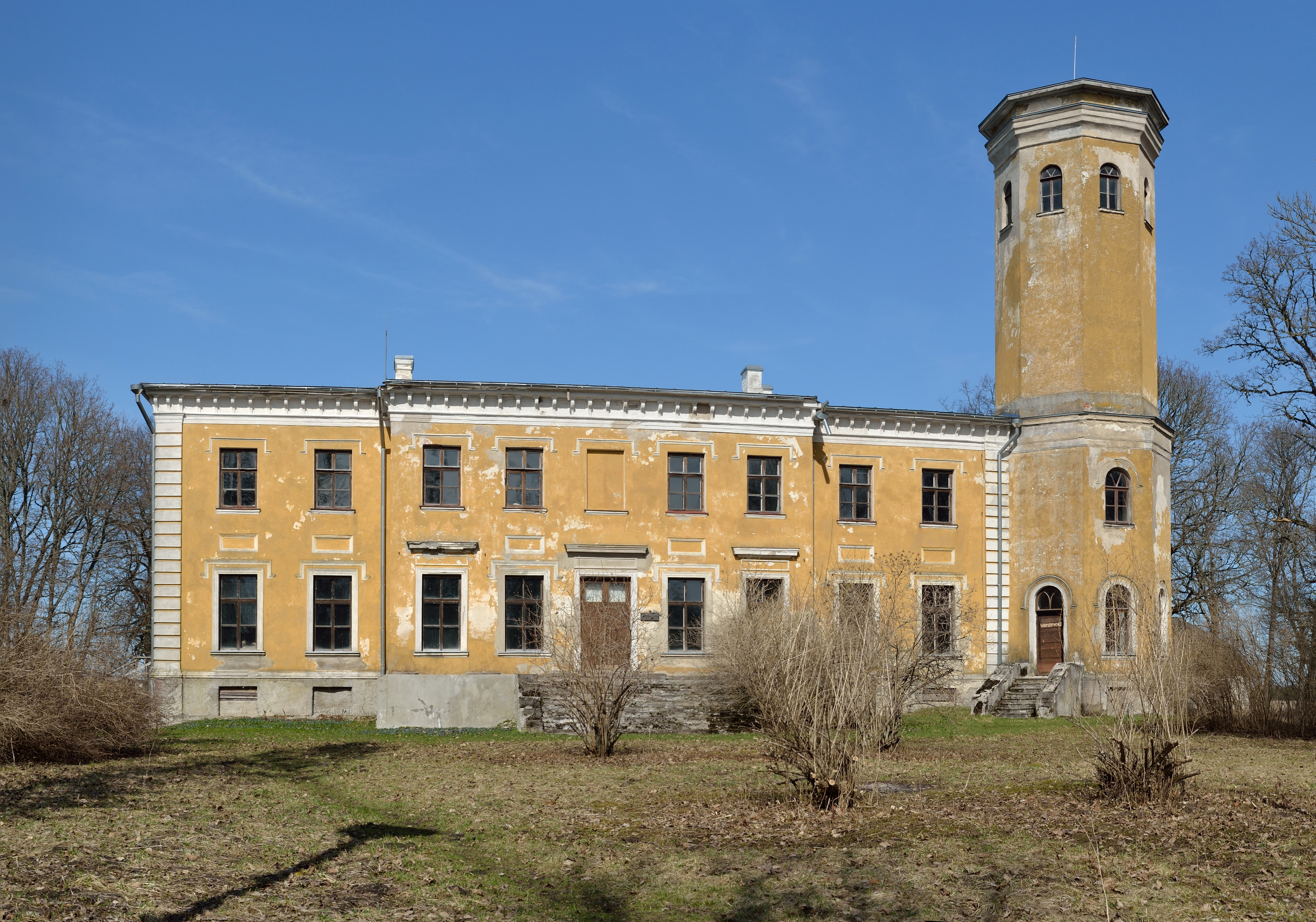 Väinjärve manor main building